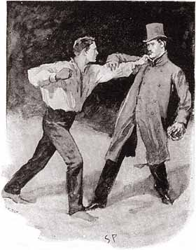 Illustration of the Sherlock Holmes short story The Beryl Coronet, which appeared in The Strand Magazine in May, 1892. Original caption was "ARTHUR CAUGHT HIM."